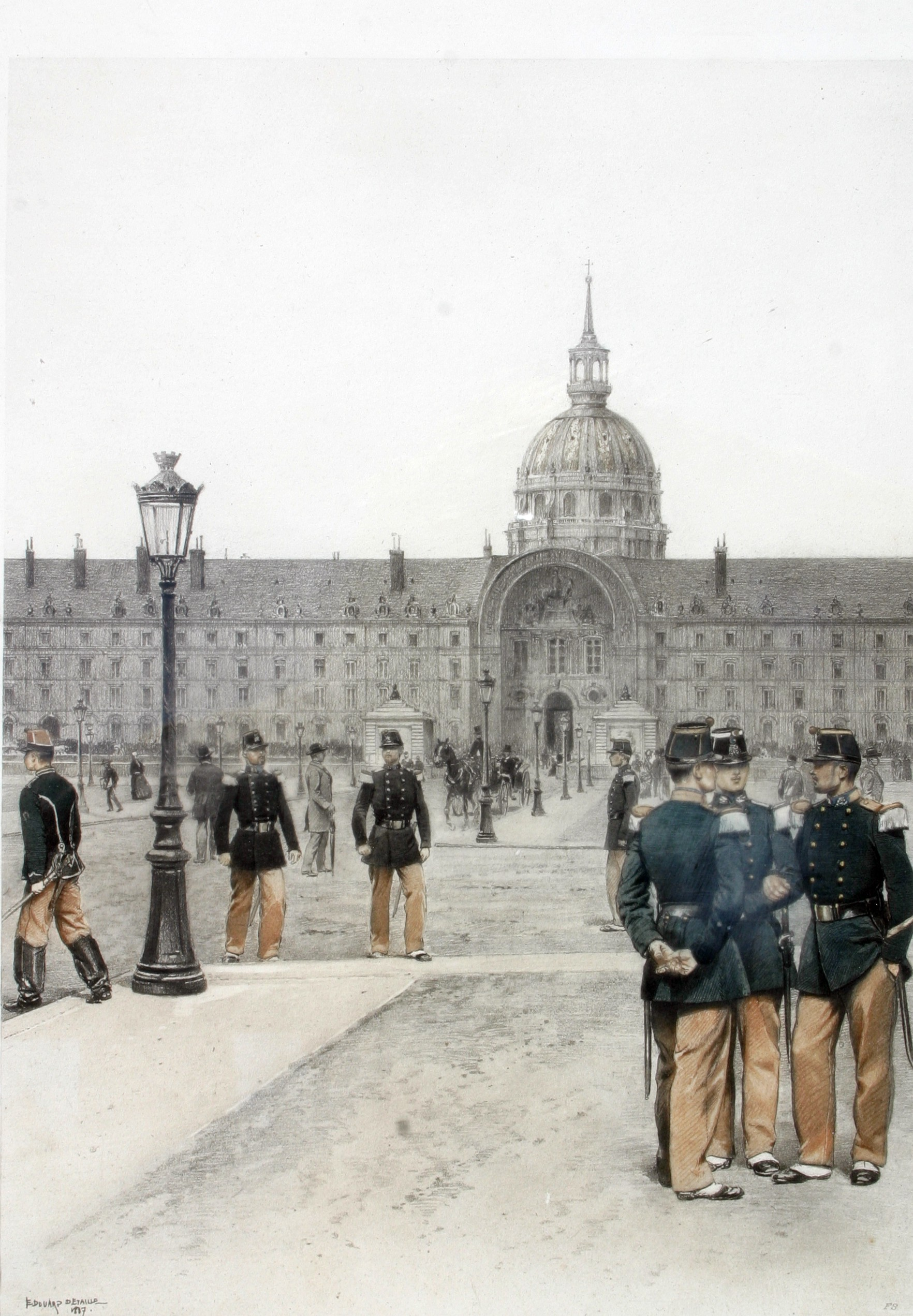 Print by Edouard Detaille (1848-1912)